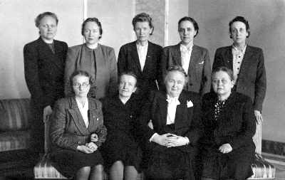 The female members of the parliamentary group of SKDL 1945-1948. In the front row: Olga Terho, Elsa Karppinen, Hella Wuolijoki, Anna Nevalainen. In the back row: Tyyne Tuominen, Kaisu-Mirjami Rydberg, Elli Stenberg, Hertta Kuusinen, Sylvi-Kyllikki Kilpi.